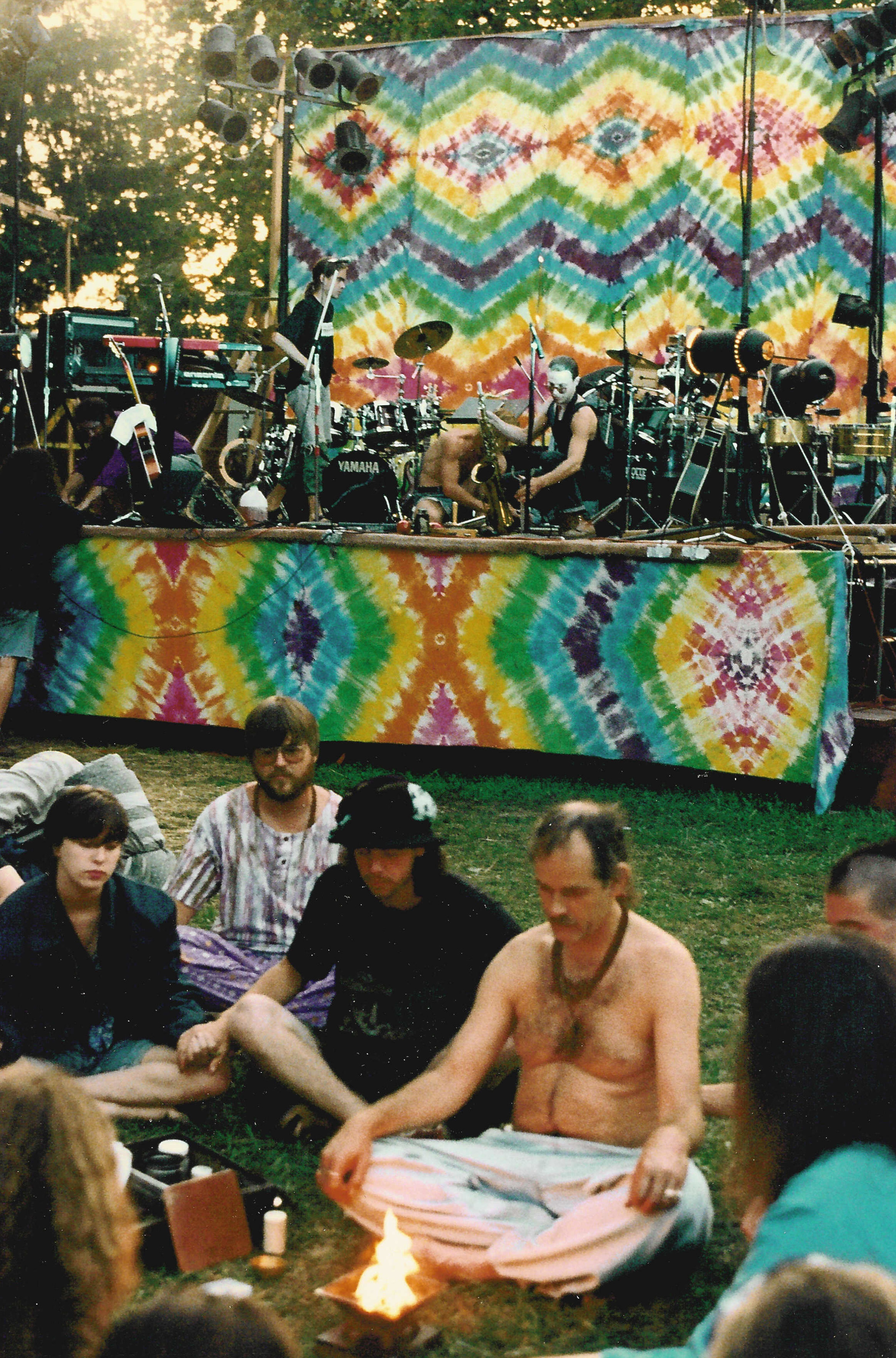 Meditation circle, Snoqualmie Moondance festival. In background, a stage with elaborate tie-dye decoration, setting up for the next performance.